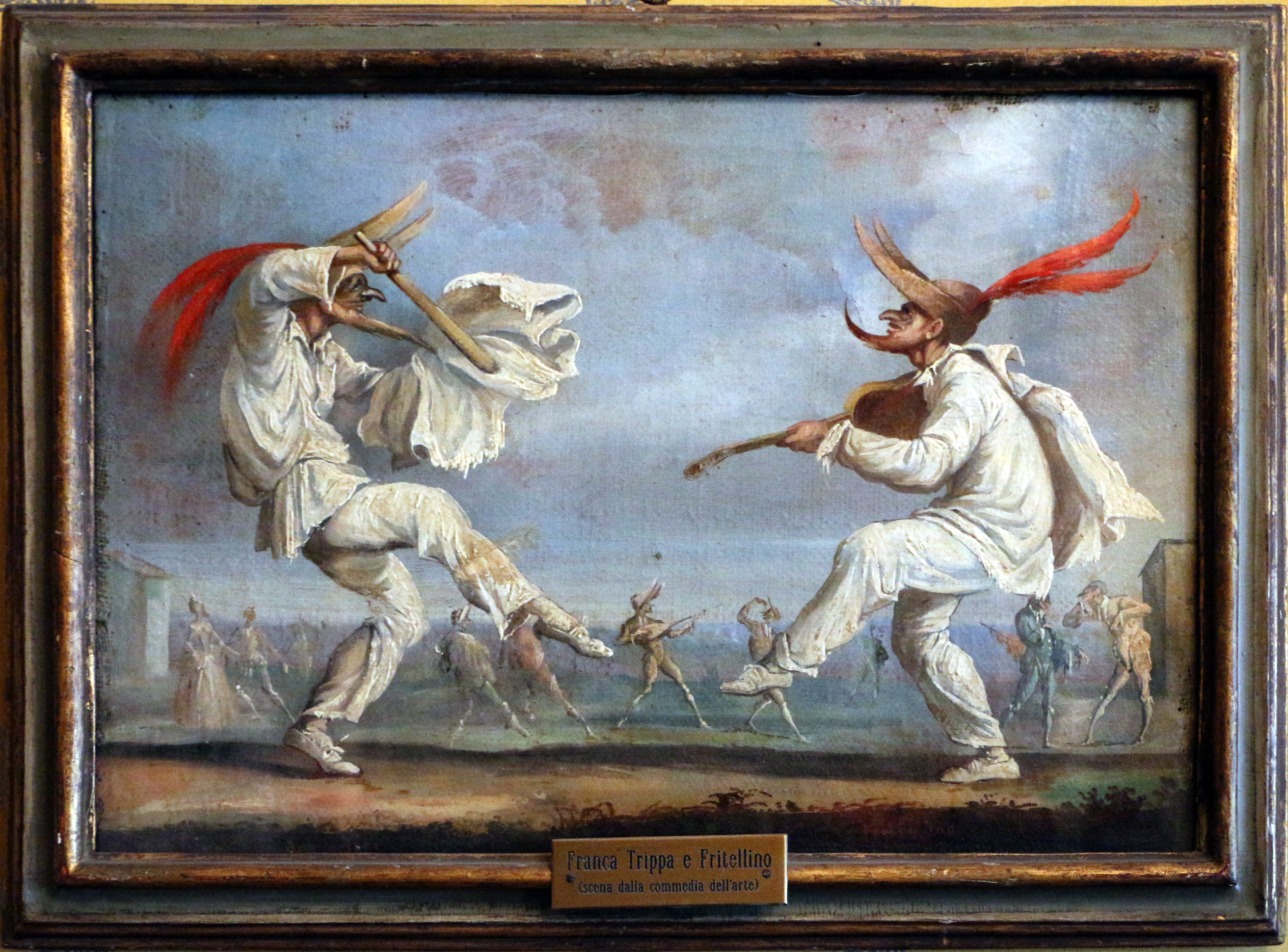 Museo del Teatro alla Scala (Milan)